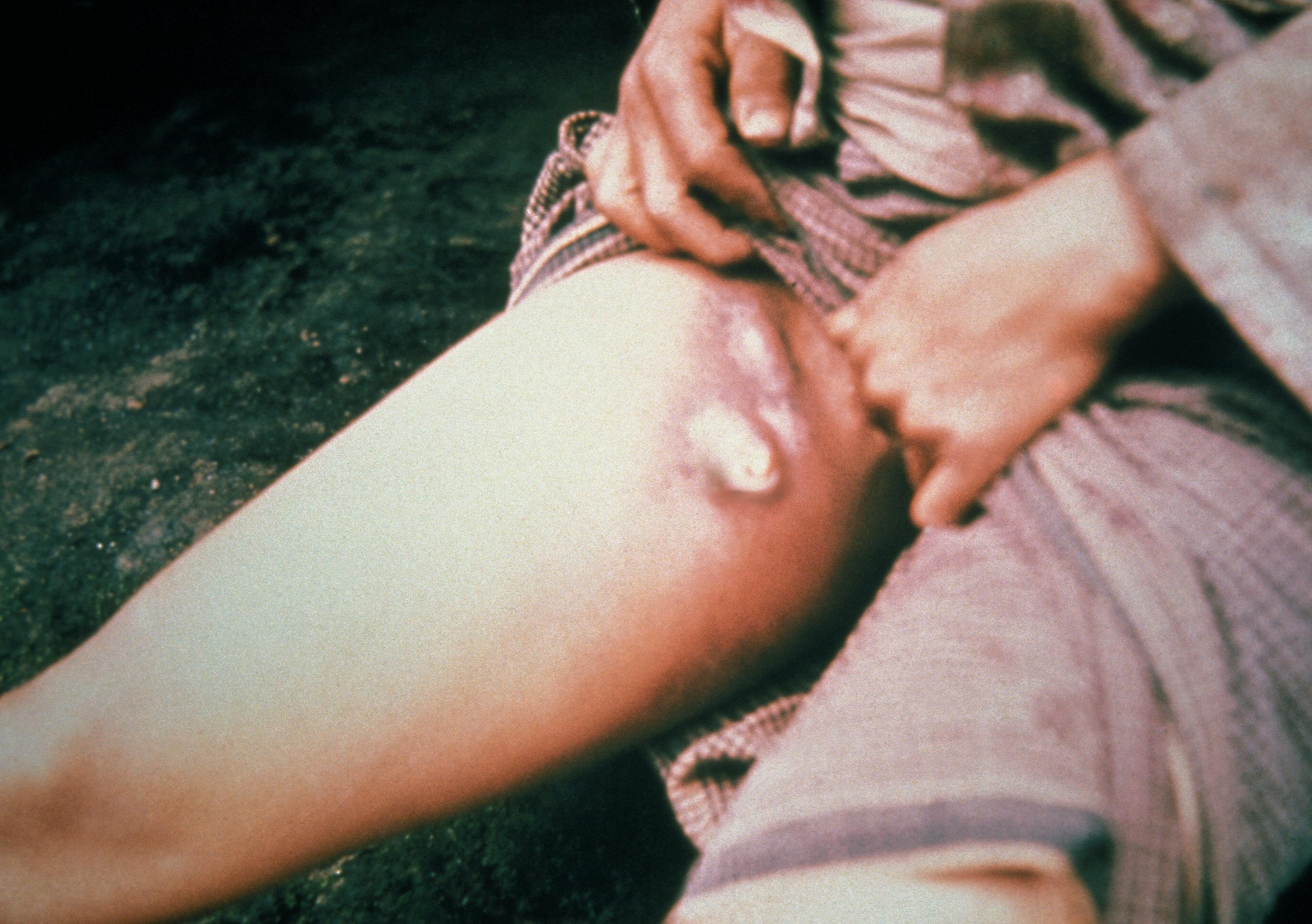 This plague patient is displaying a swollen, ruptured inguinal lymph node, or buboe. After the incubation period of 2-6 days, symptoms of the plague appear including severe malaise, headache, shaking chills, fever, and pain and swelling, or adenopathy, in the affected regional lymph nodes, also known as buboes.